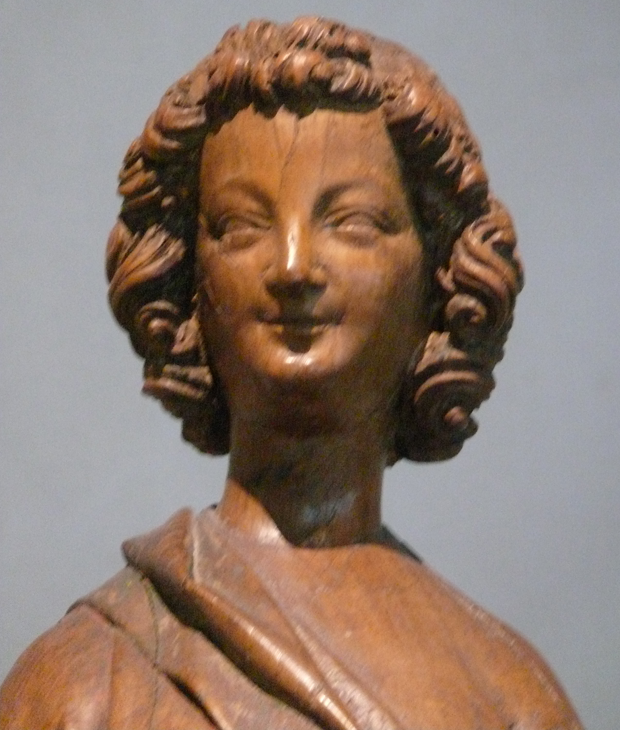 One of a pair of altar angels. The style of these figures -kept in The Cloisters- derives from the smiling angels on the west façade of Reims Cathedral. Laughing angel in portal of Reims Cathedral [1] Date ca. 1275–1300 Geography Made in Artois, France Medium Oak with traces of paint Dimensions: 29 x 7 5/8 in. (73.7 x 19.3 cm) Credit Line: The Cloisters Collection, 1952 Accession Number: 52.33.1, .2